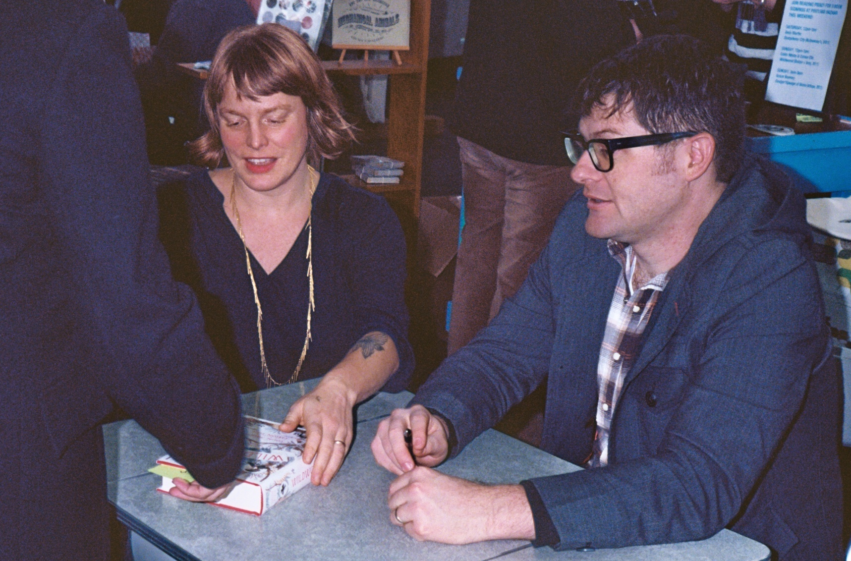 Carson Ellis (left) and Colin Meloy signing Wildwood at the Portland Bazaar 420 Northeast 9th Ave, Portland, Oregon, December 11, 2011.